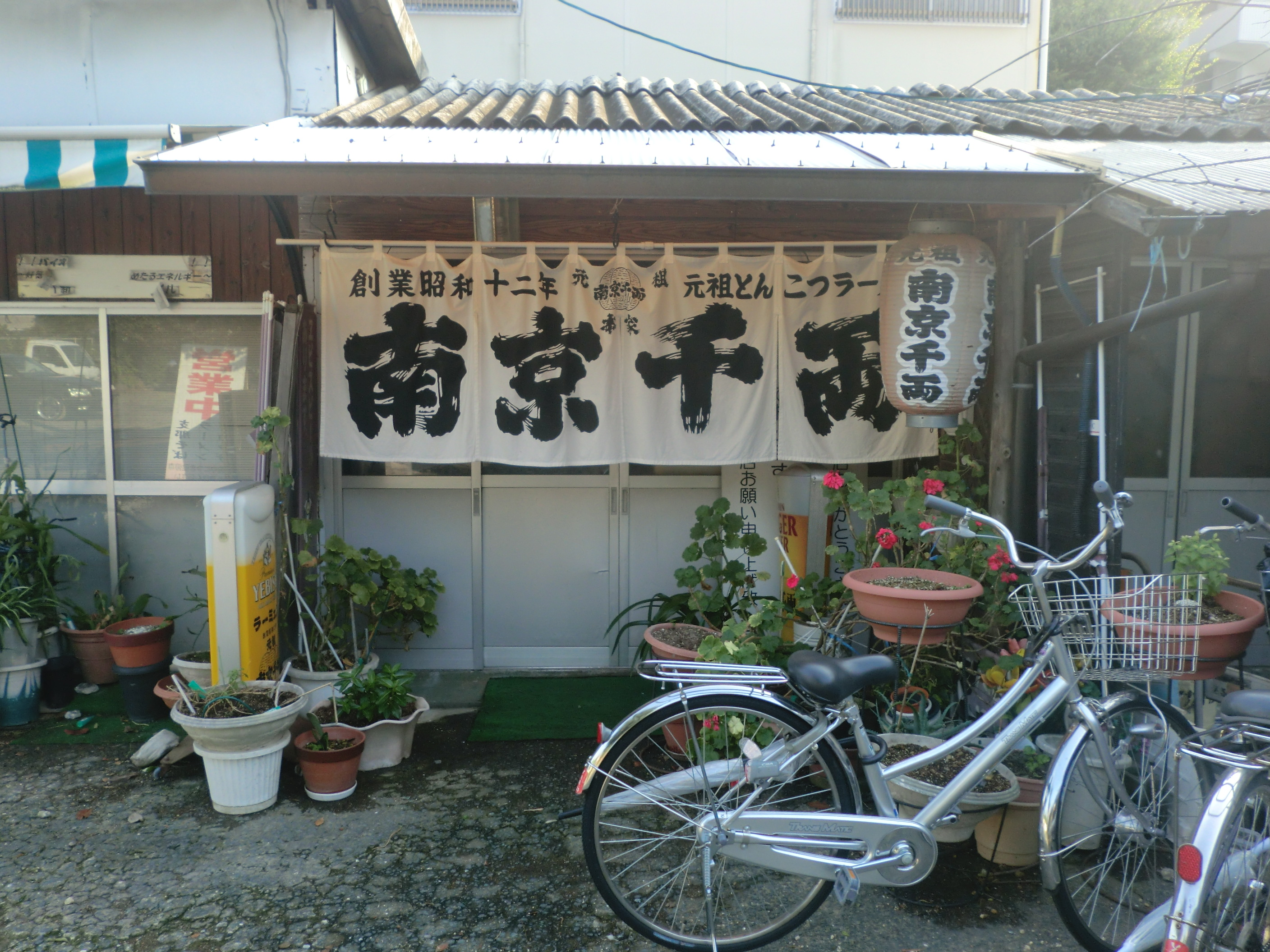 Nankin Senryo Gosaro shop at Kurume, Fukuoka, Japan.